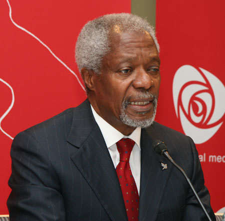 Kofi Annan. Former United Nations Secretary-General. Photo is taken at the national convention of the Norwegian Labour Party, 2007.